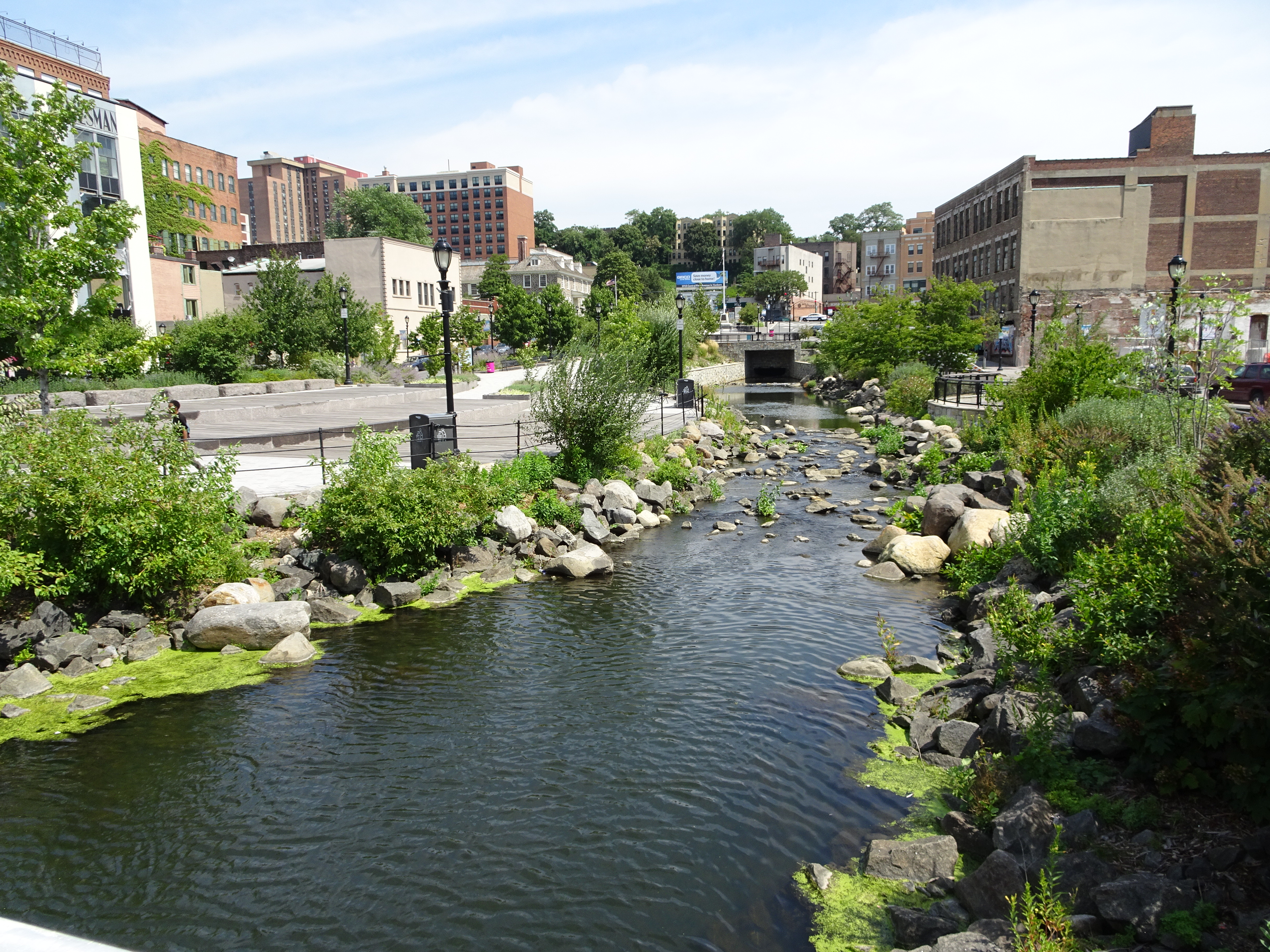 Looking east from footbridge as daylighted Saw Mill River approaches on a hot, sunny midday.